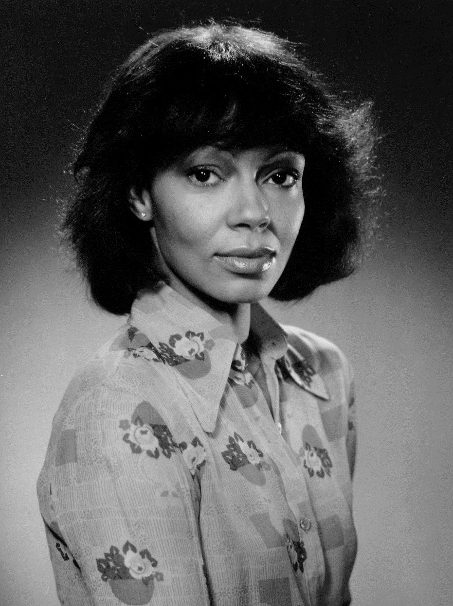 Photo of Carole Cole (daughter of Nat) as Ellie, the daughter of Grady, from the television program Grady. The show was a spin-off of Sanford and Son.